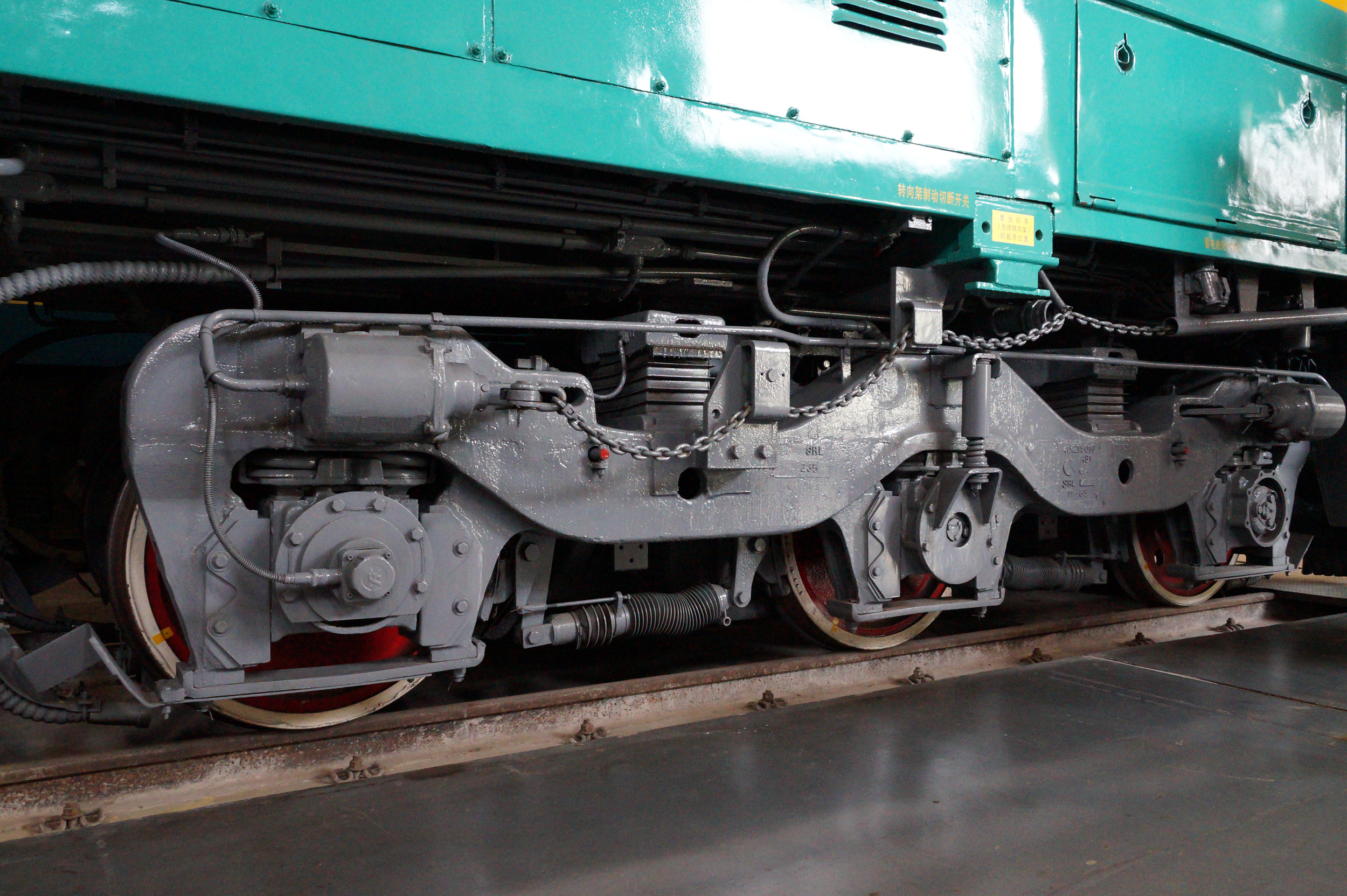 The bogie of China Railways ND5-0049 diesel locomotive